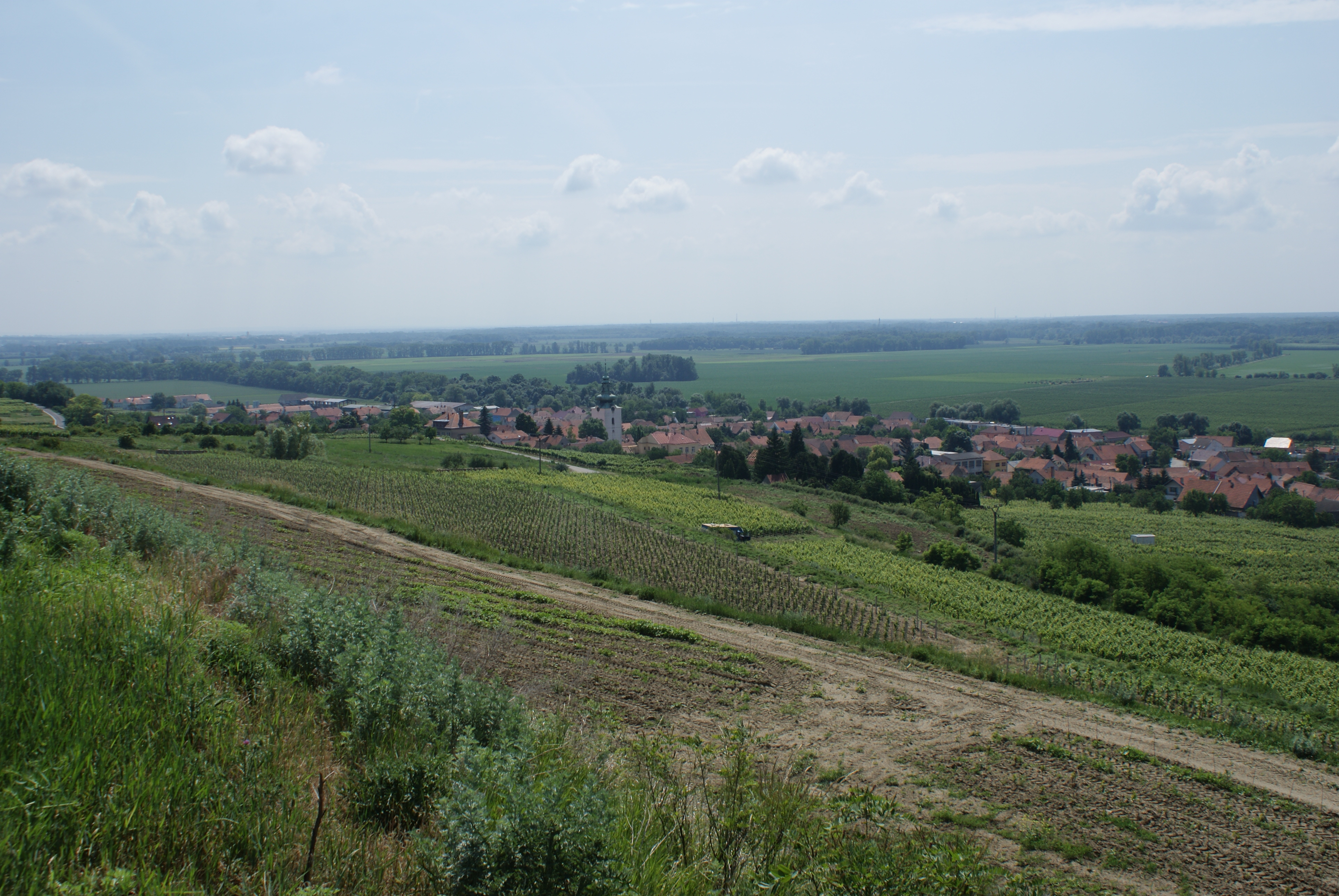 Přítluky, a village in Břeclav District, Czech Republic, general view.